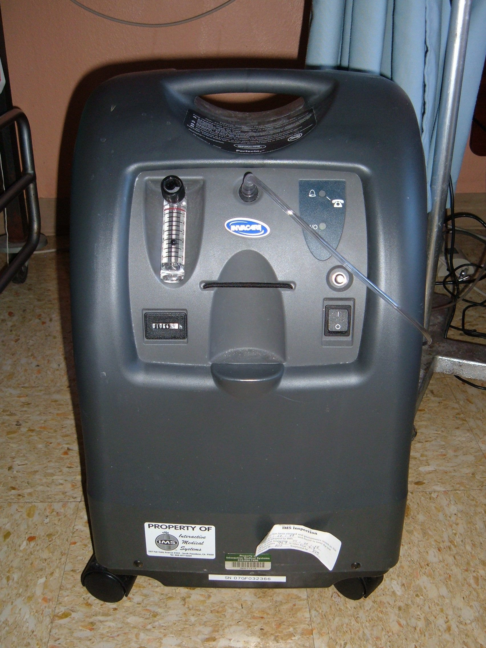 An Invacare Perfecto 2 Oxygen Concentrator.